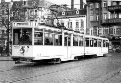 Tram Wismar S2